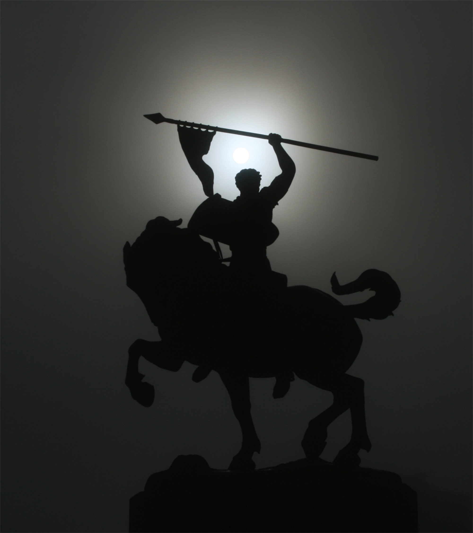 Very delicate foggy solar coronae is seen over the statue of Ruy Diaz de Vivar in San Francisco. original Statue of El Cid, by Anna Hyatt Huntington